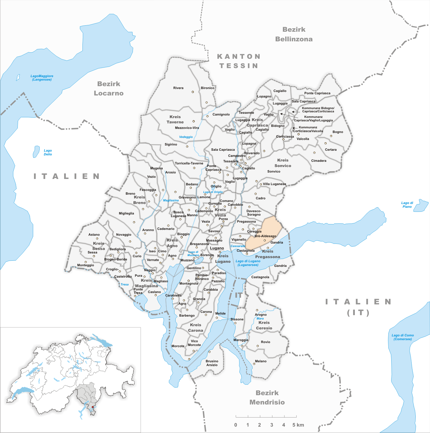 Municipality Brè-Aldesago Artist: Tschubby